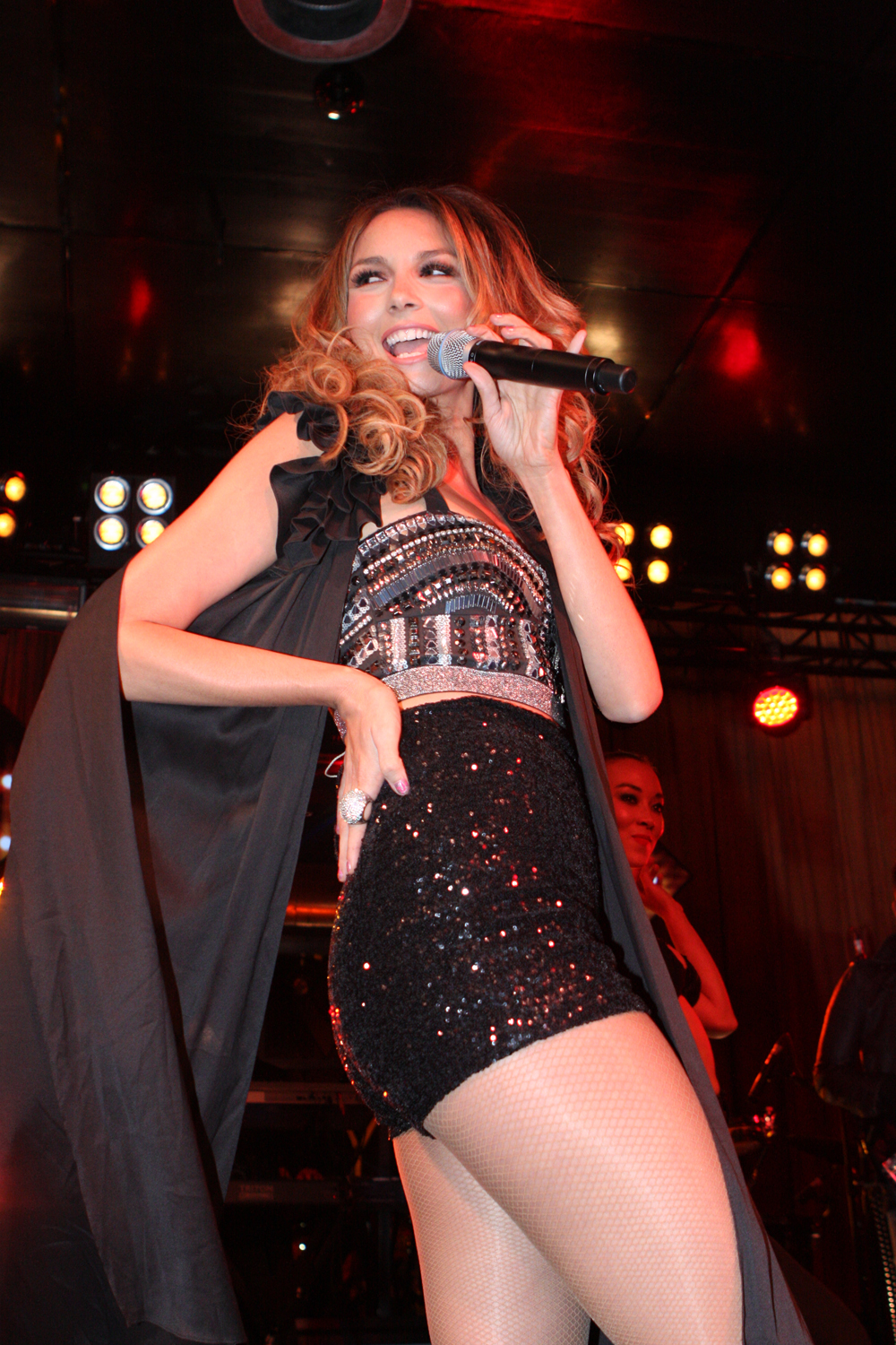 Ricki-Lee performing at the Beresford Hotel in Surry Hills, New South Wales.